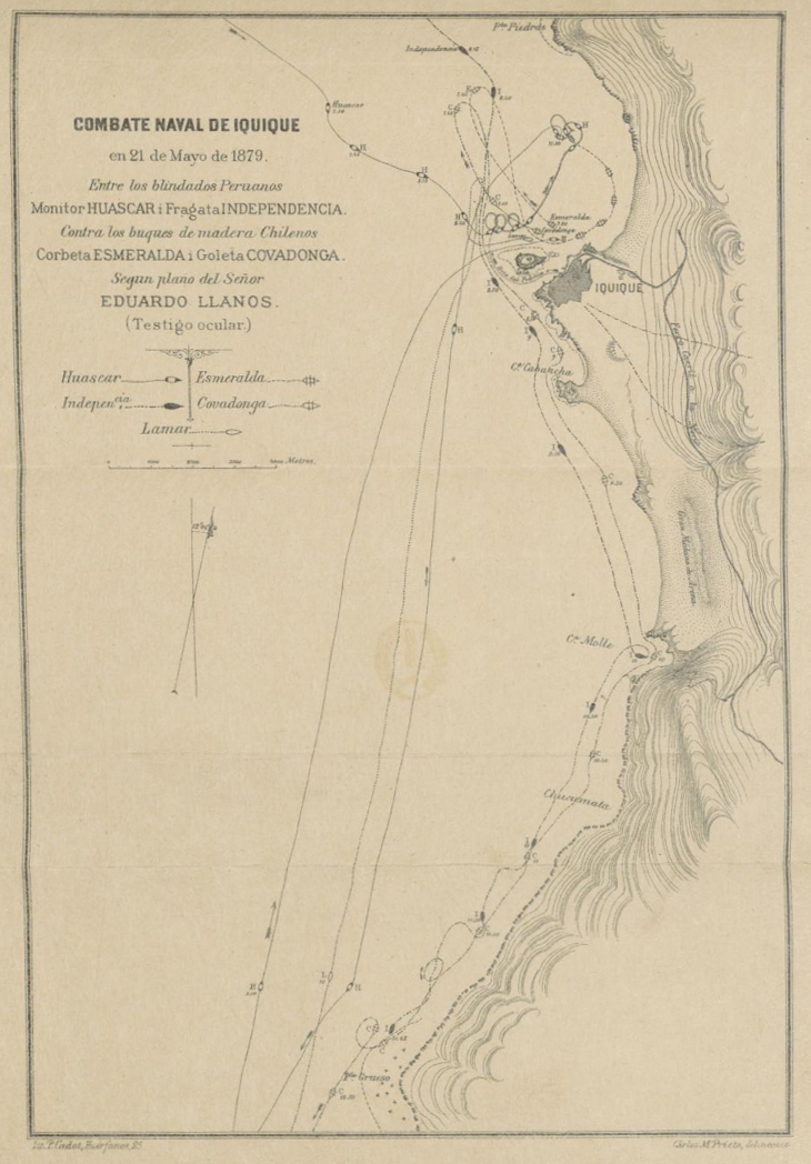 Mapa combate naval de Iquique y Punta Gruesa, 1879